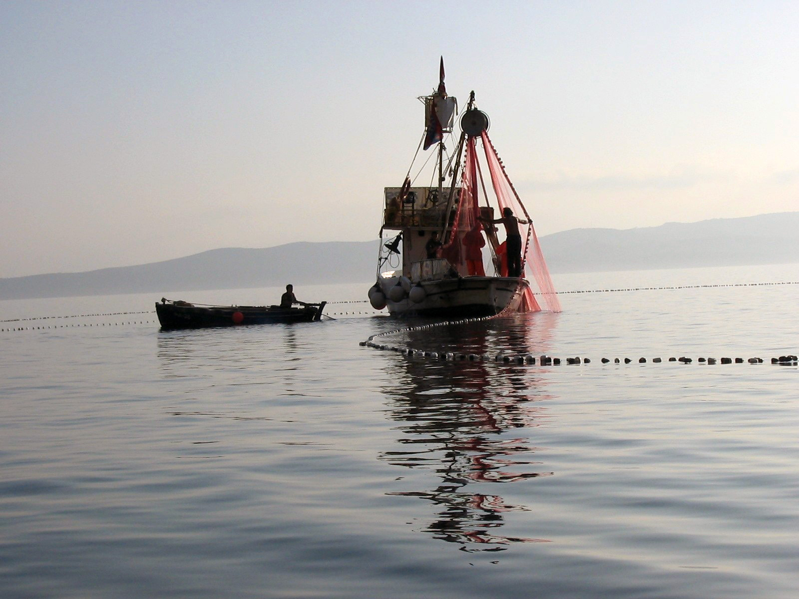 The fishermen of Brela.